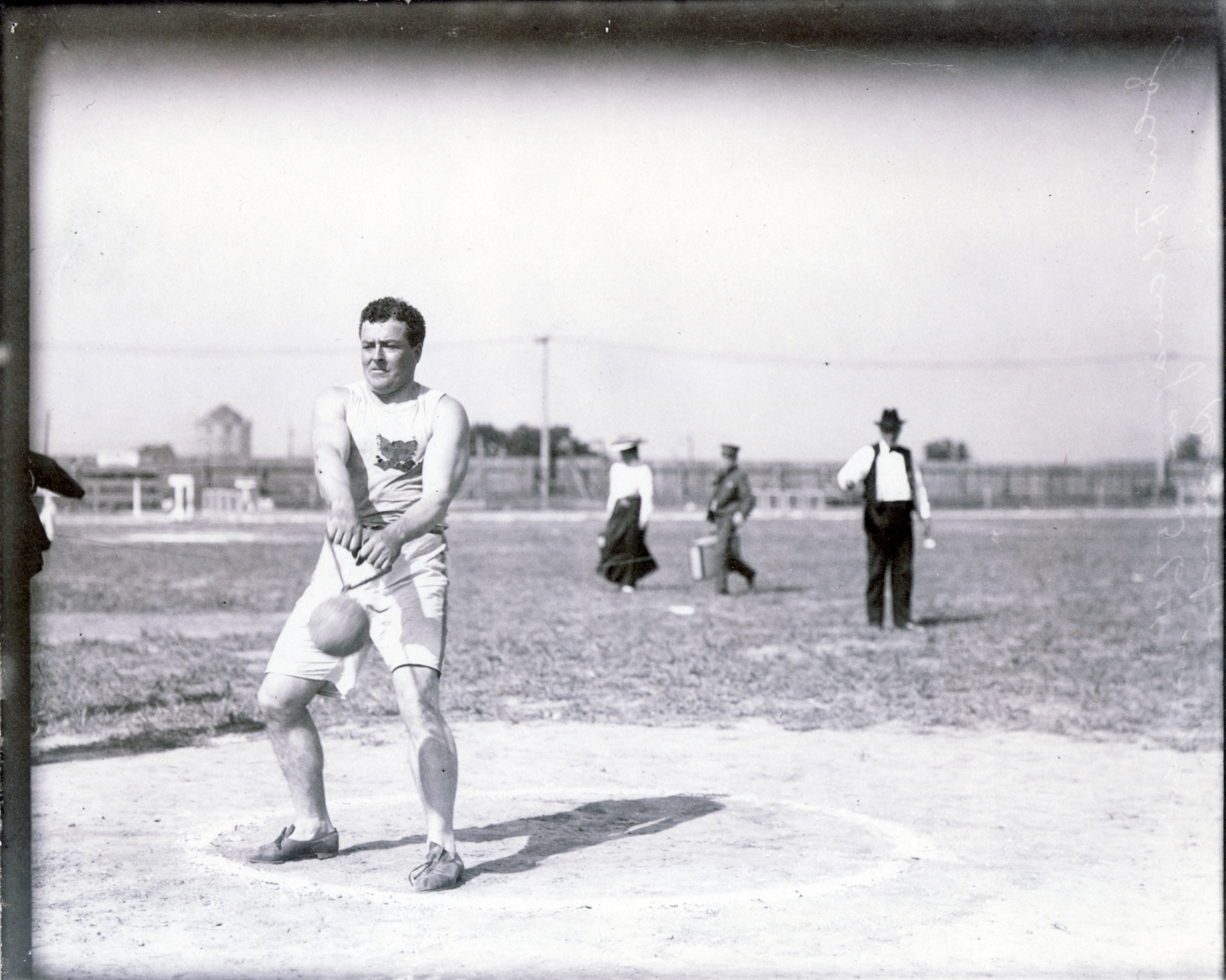 Title: John Flannigan of the Greater New York Irish Athletic Association performing the 56 pound hammer throw at the 1904 Olympics.